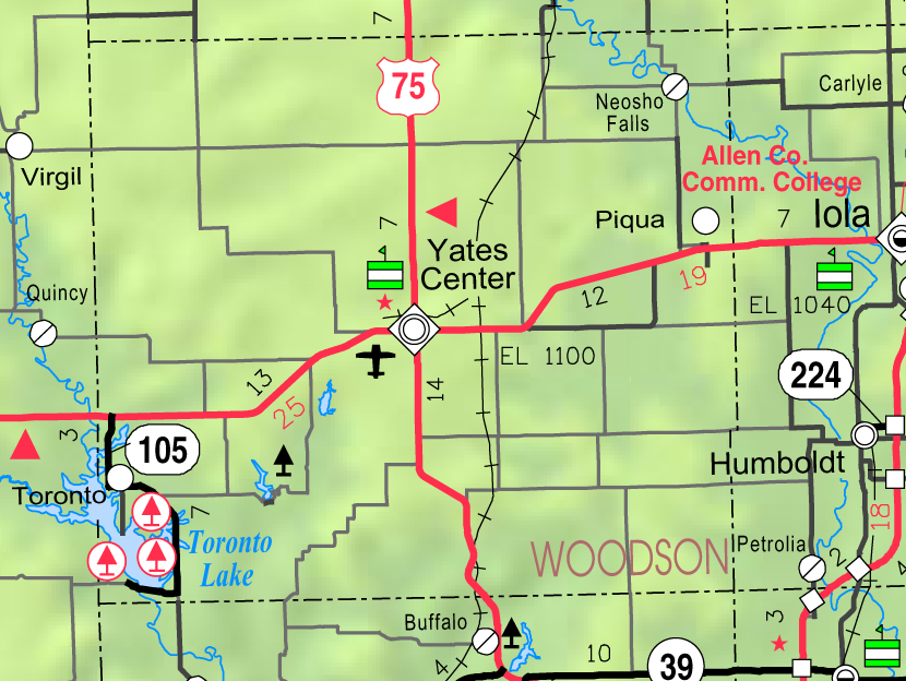 This map of Woodson County, Kansas, USA, is copied at a resolution of 300 pixels/inch from the original PDF file.